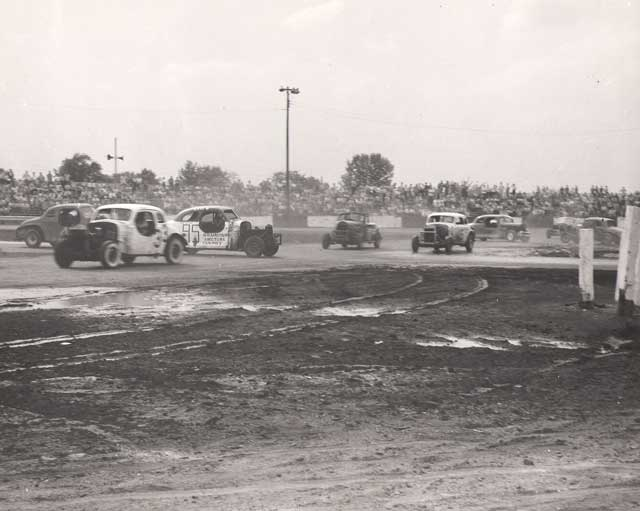 A photo from my collection of pics from my grandfather racing in the 1940's